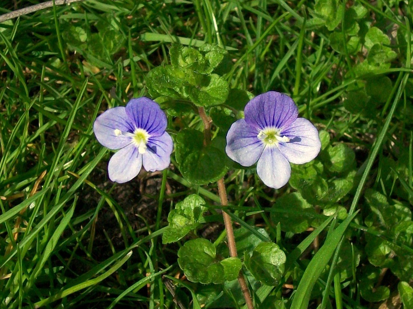 Slender Speedwell (Veronica filiformis), photographed in Stevenage, Hertfordshire, England.